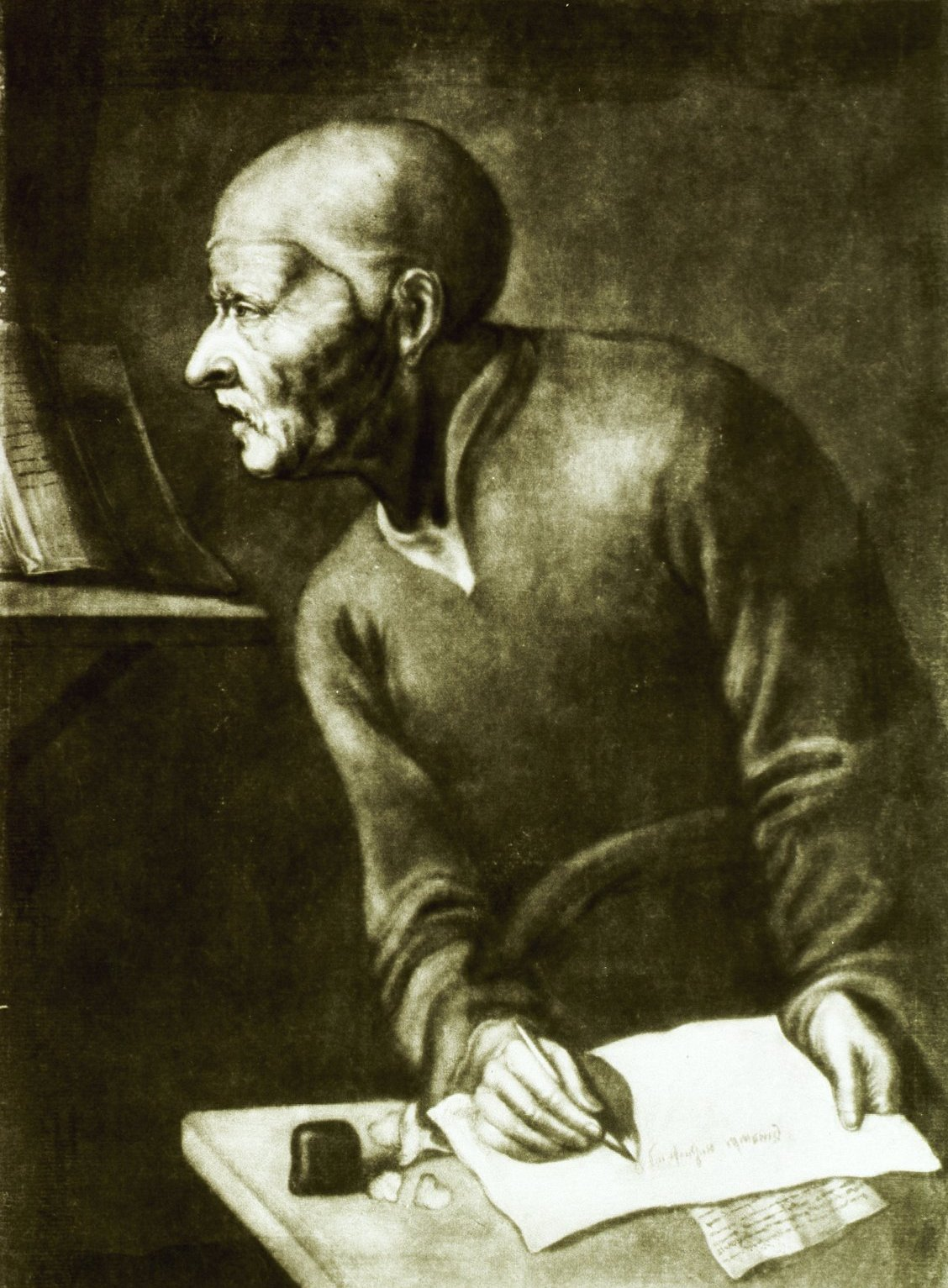 John (Johannes) Duns Scotus (c. 1265 – November 8, 1308)